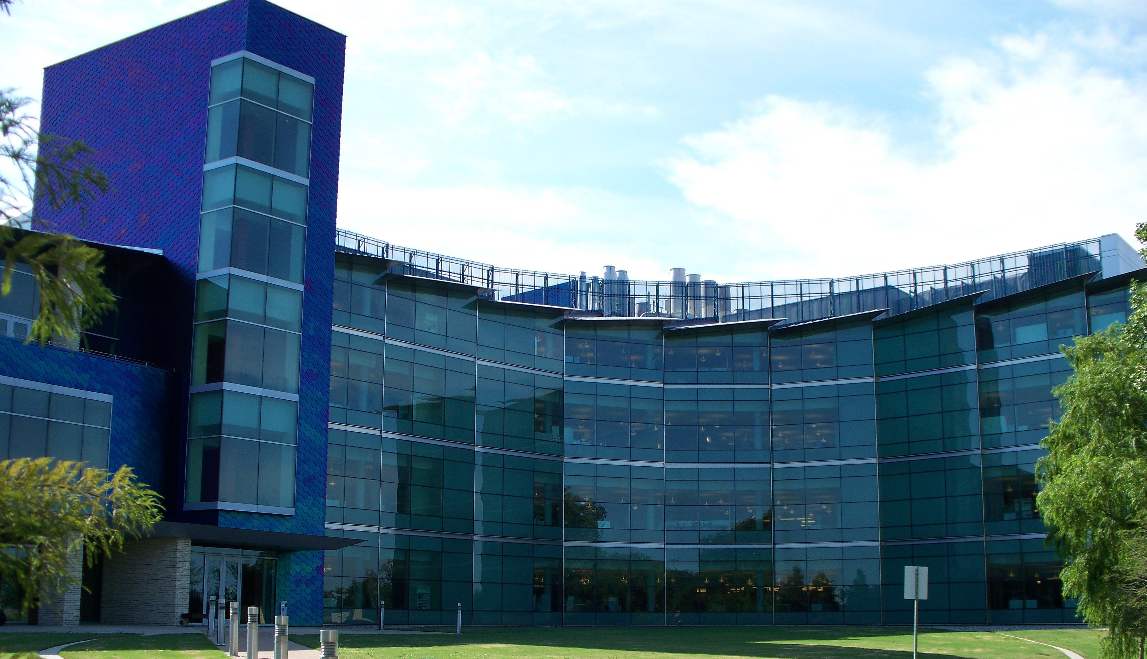 UT Dallas' Natural Science Engineering and Research Laboratory (NSERL). A 192,000-square-foot (17,800 m2) research facility.